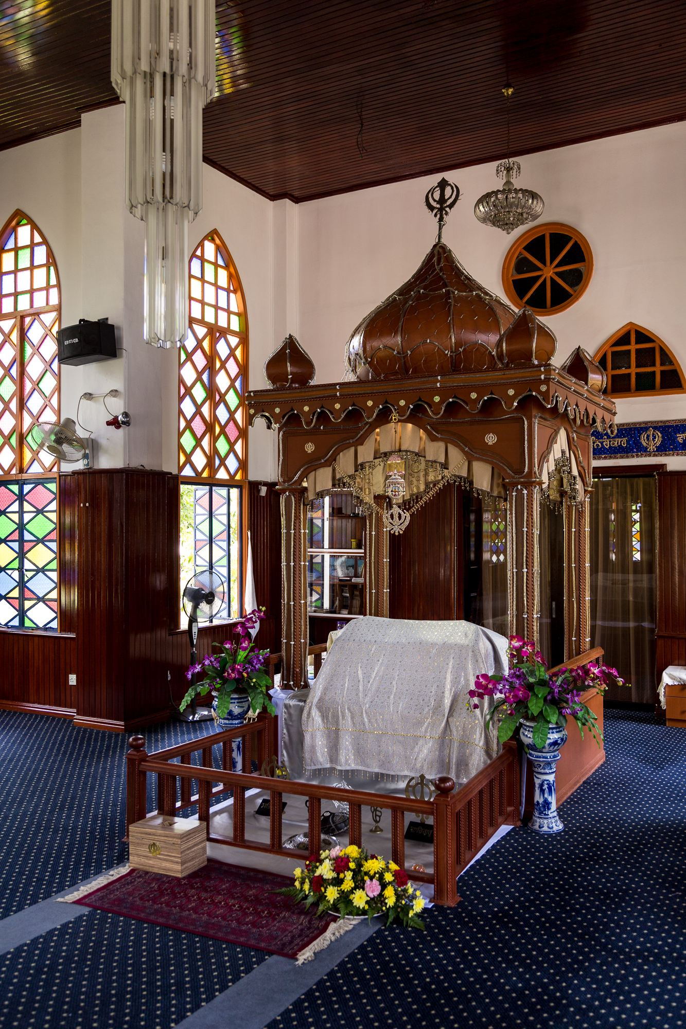 Kota Kinabalu (Sabah): Gurudwara Sahib (Sikh Temple), built in 1924